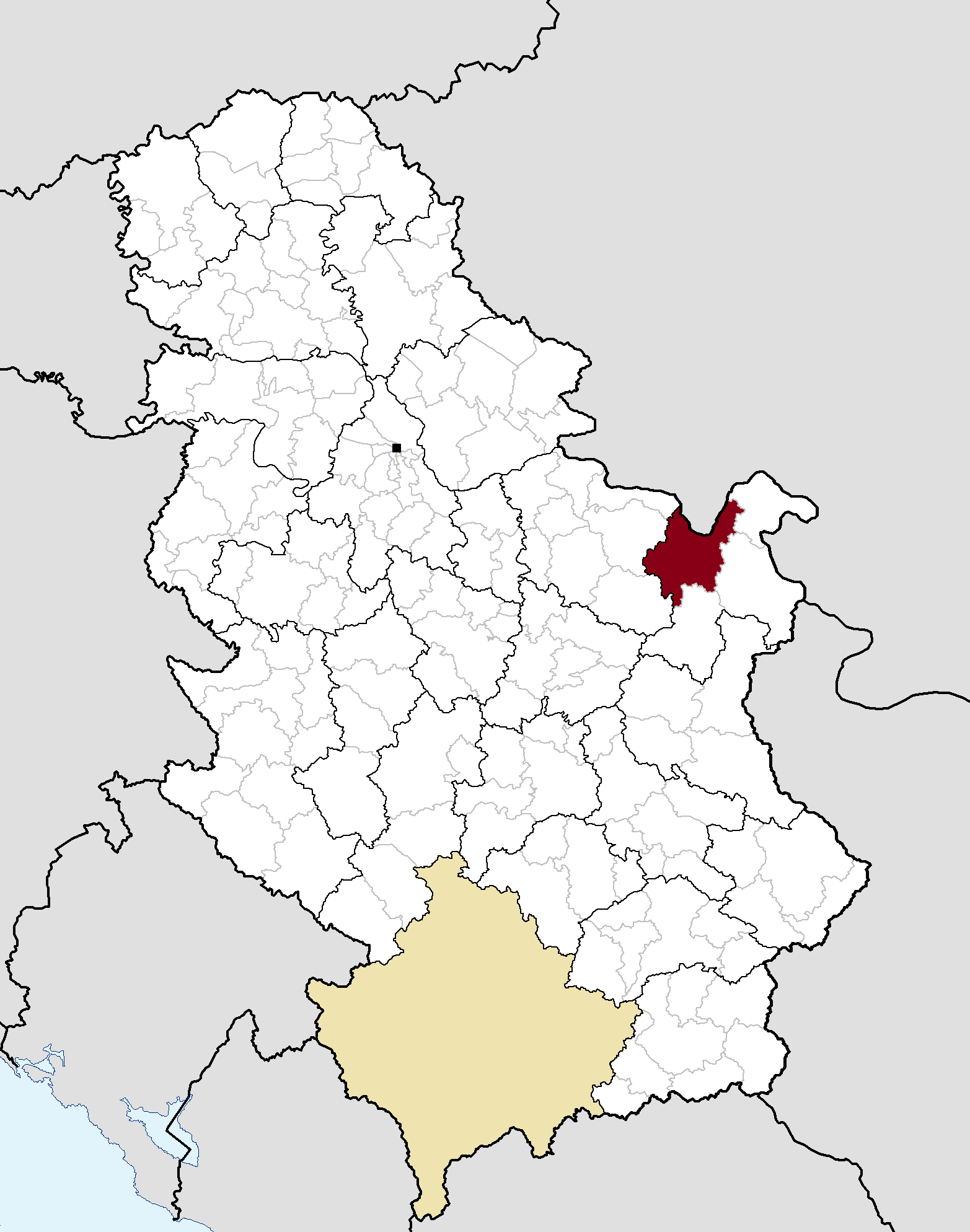 Municipal location in Serbia